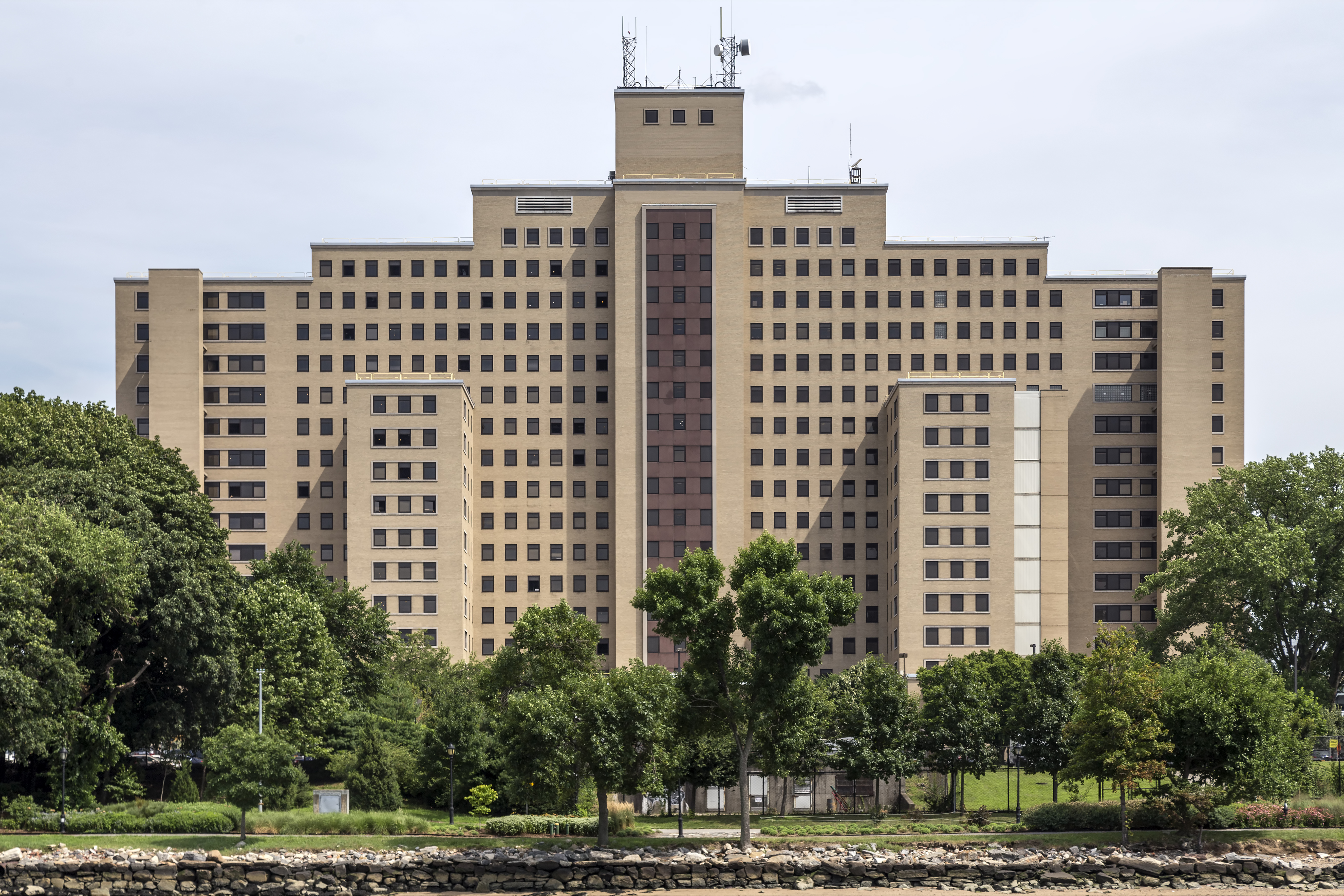 The west side of the Manhattan Psychiatric Center from the Harlem River, New York